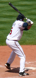 Chris Woodward 08:49, 14 May 2007 . . Chrisjnelson . . 123×266 (76,473 bytes)